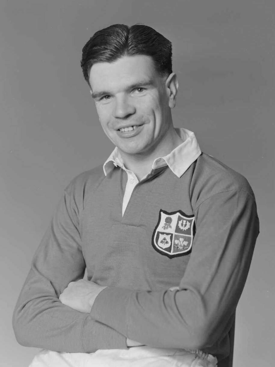 R T Evans, member of the British Lions rugby union team